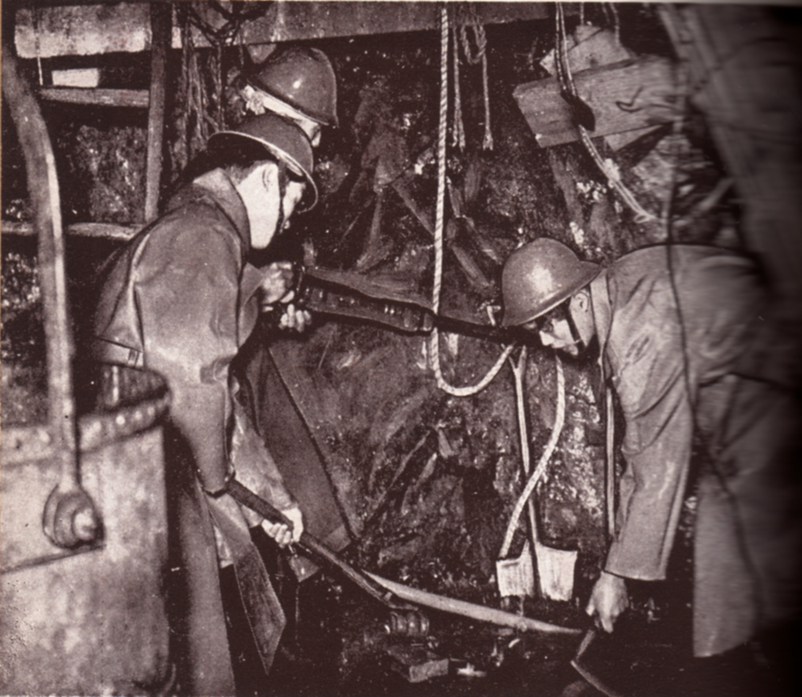 Construction work of service bore of Kammon railway tunnel